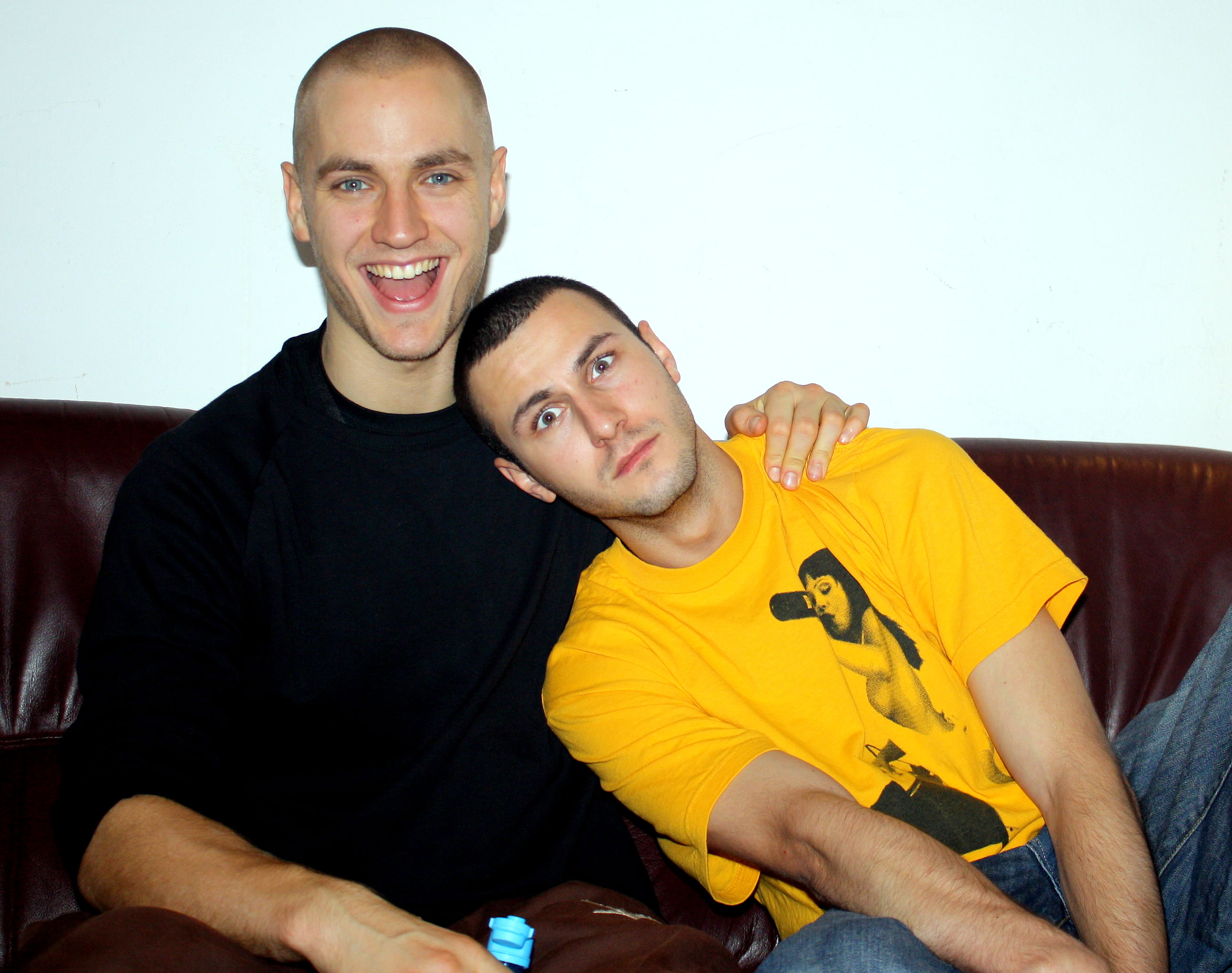 Maxim and DJ Craft - K.I.Z.